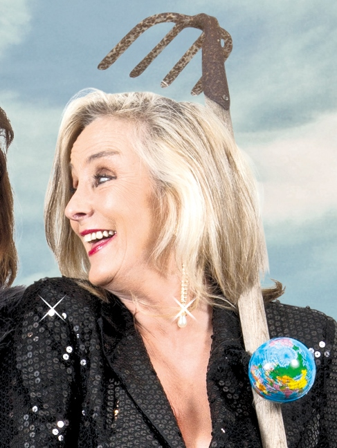 Susanne Breuning in the Copenhagen theater Folketeatret's production of the play "Med hovedet i himlen og fødderne på jorden".